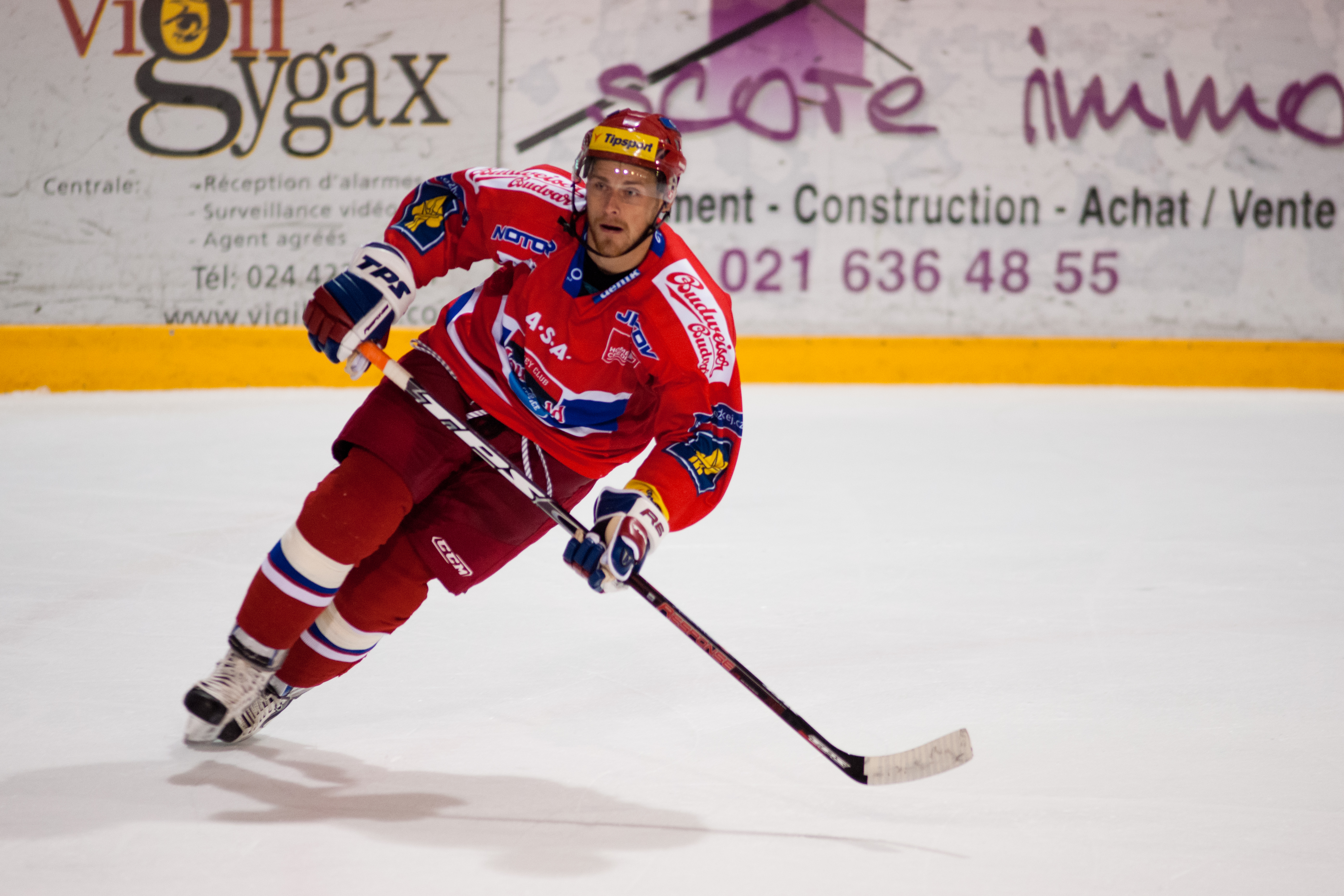 Festyvhockey 2010, Yverdon-les-Bains. The making of this document was supported by Wikimedia CH. (Submit your project!) For all the files concerned, please see the category Supported by Wikimedia CH.